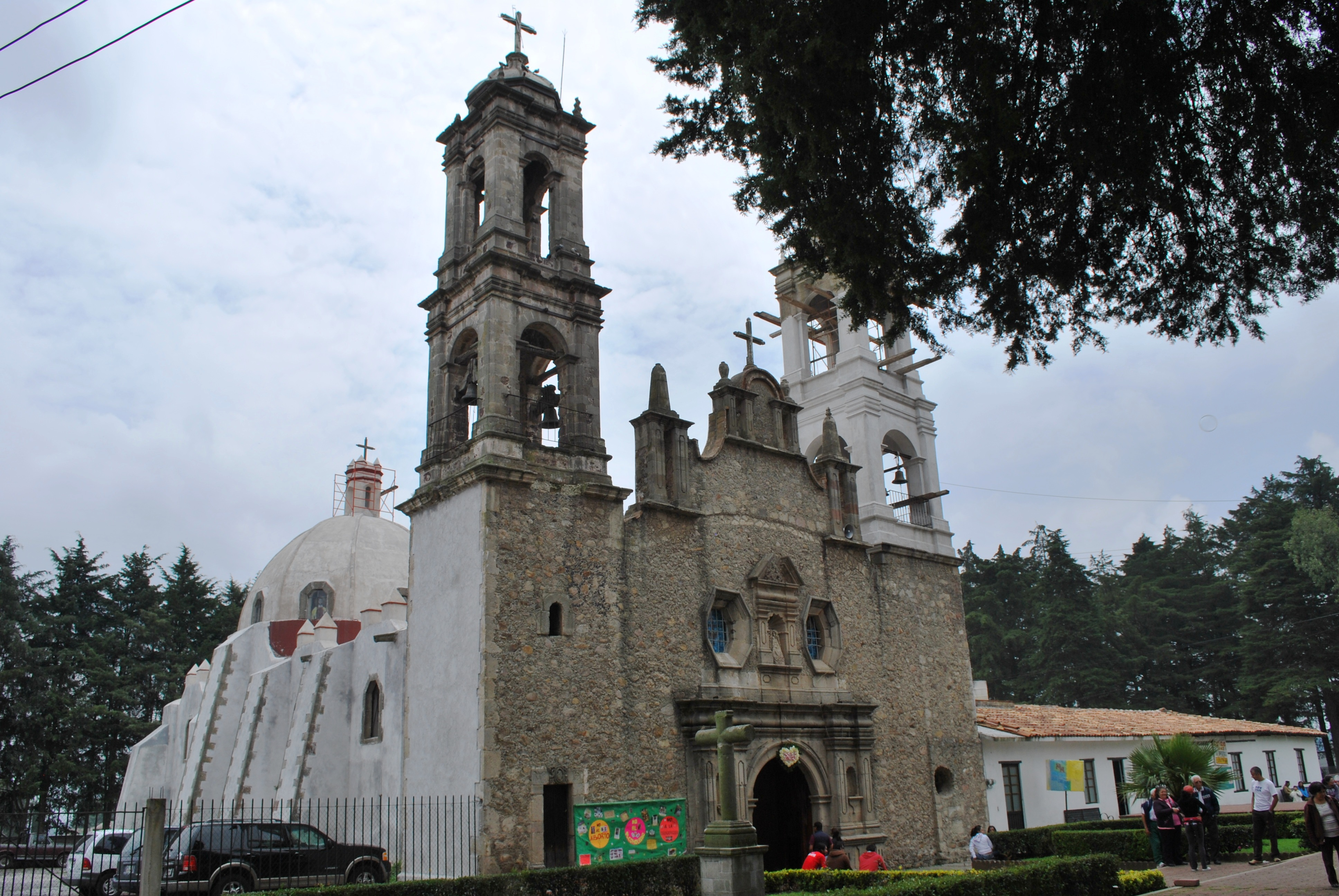 Virgen de la Peña de Francia Church in Villa del Carbón, Mexico State, Mexico